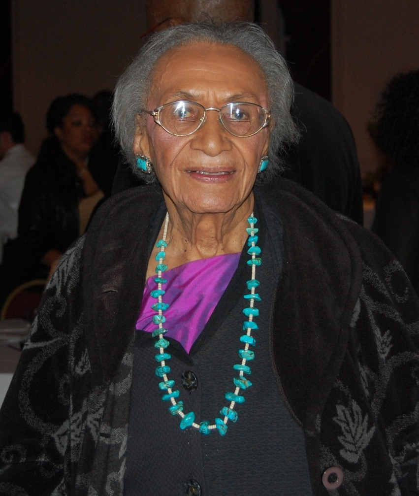 Photo of Frankie Muse Freeman.